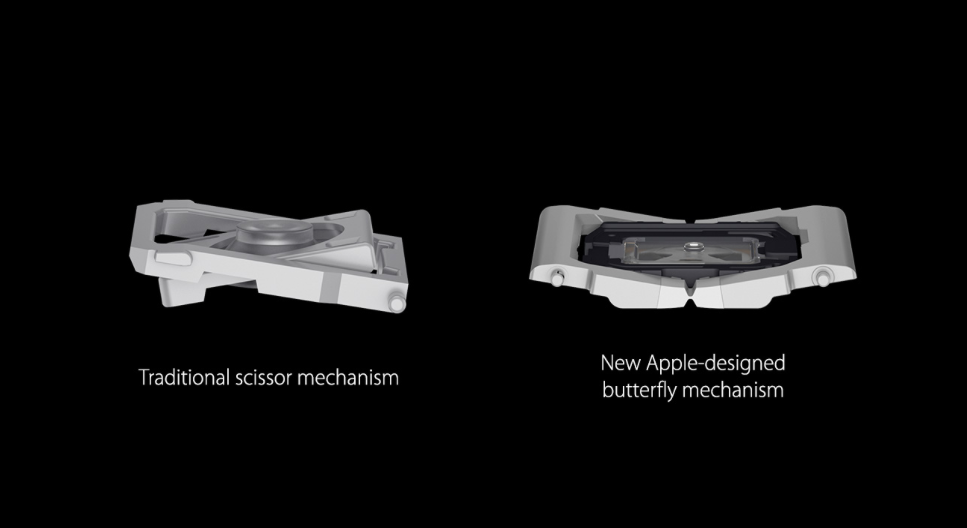 Promotional image from Apple Inc. comparing traditional scissor keys with their new butterfly keys.